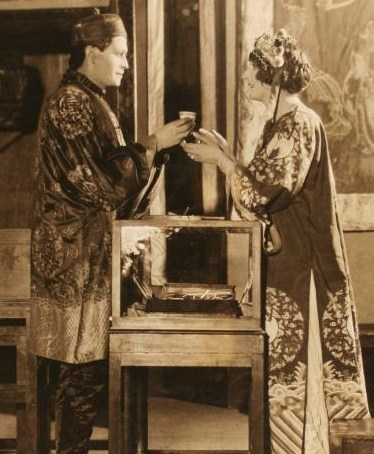 Ian Maclaren and Florence Fair in the play The Green Beetle, Broadway, Klaw Theatre - publicity still (cropped)